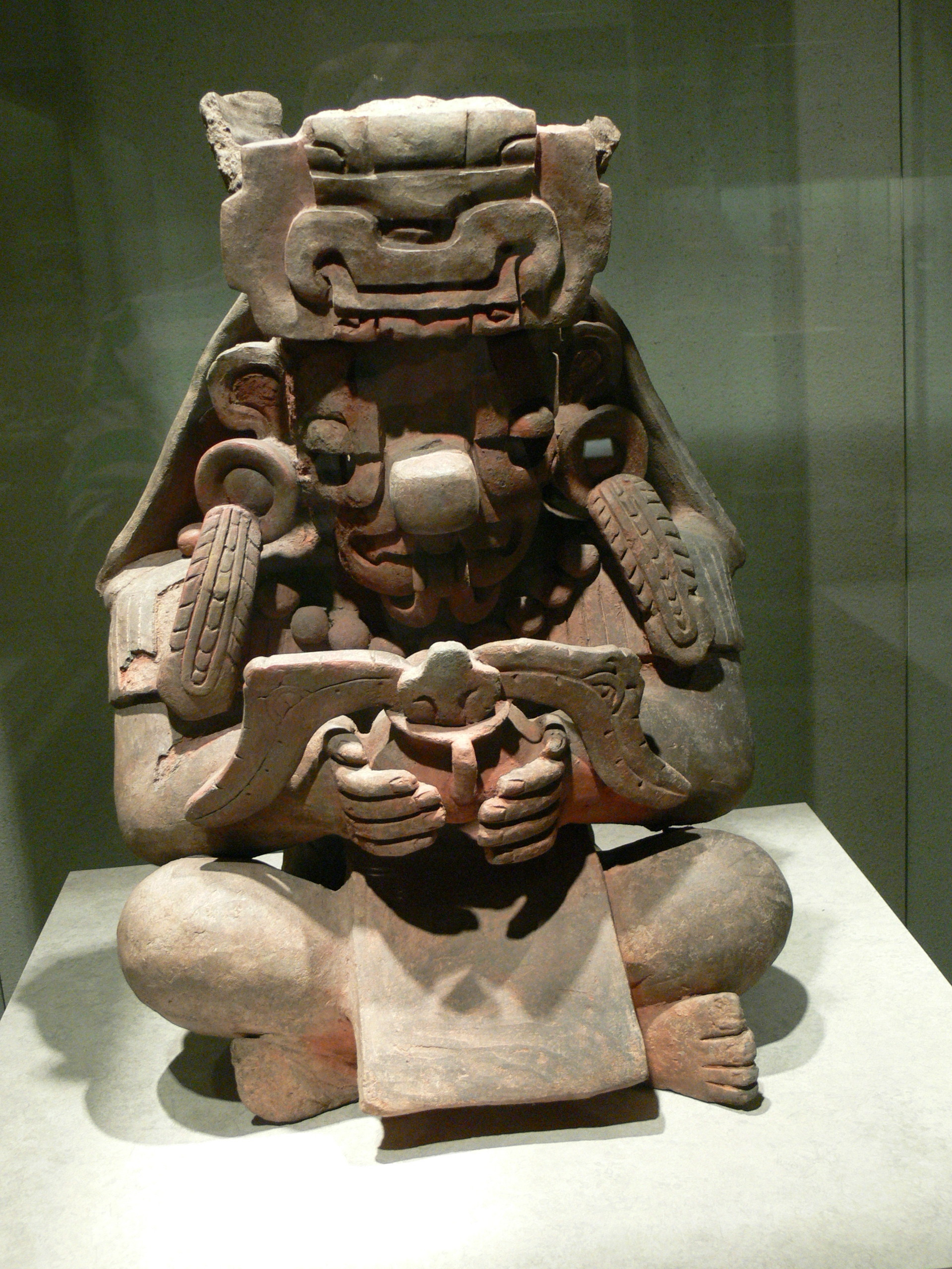 National Museum of Anthropology in Mexico City. Dios Cocijo ( Zapotec god of the rain ) from Monte Alban ( 200-500 AD )